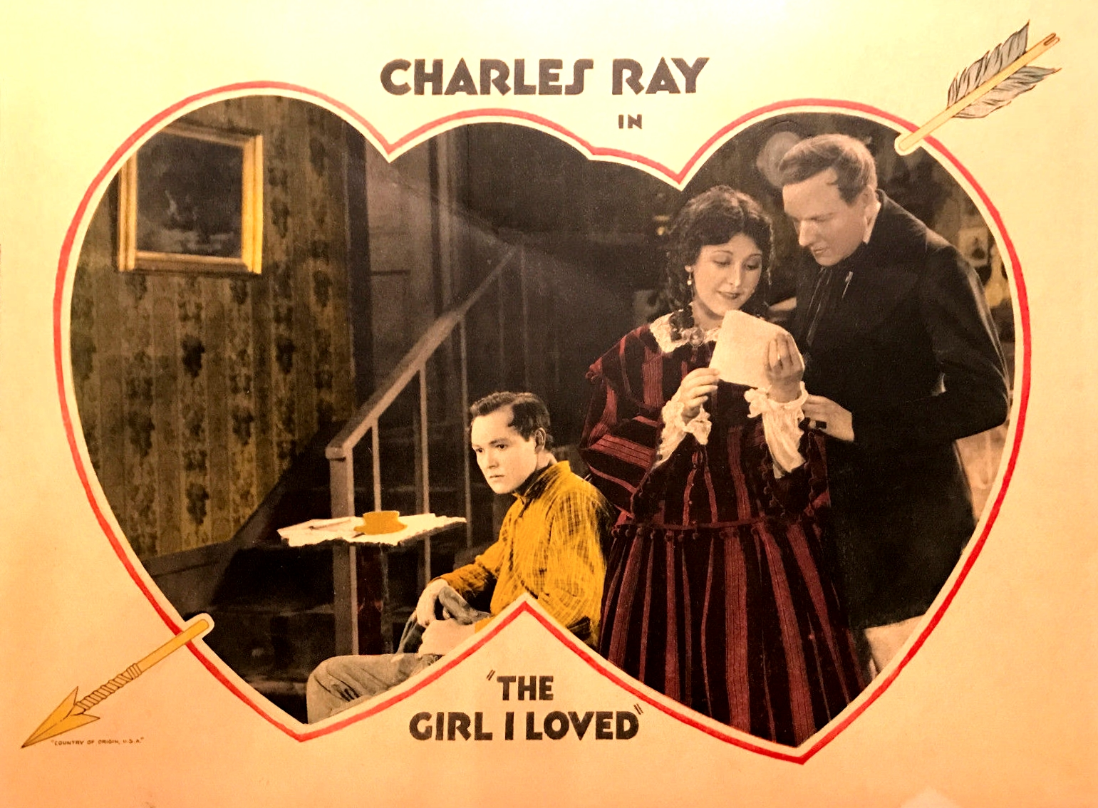 This is a lobby card for the 1923 American silent romantic drama film The Girl I Loved.